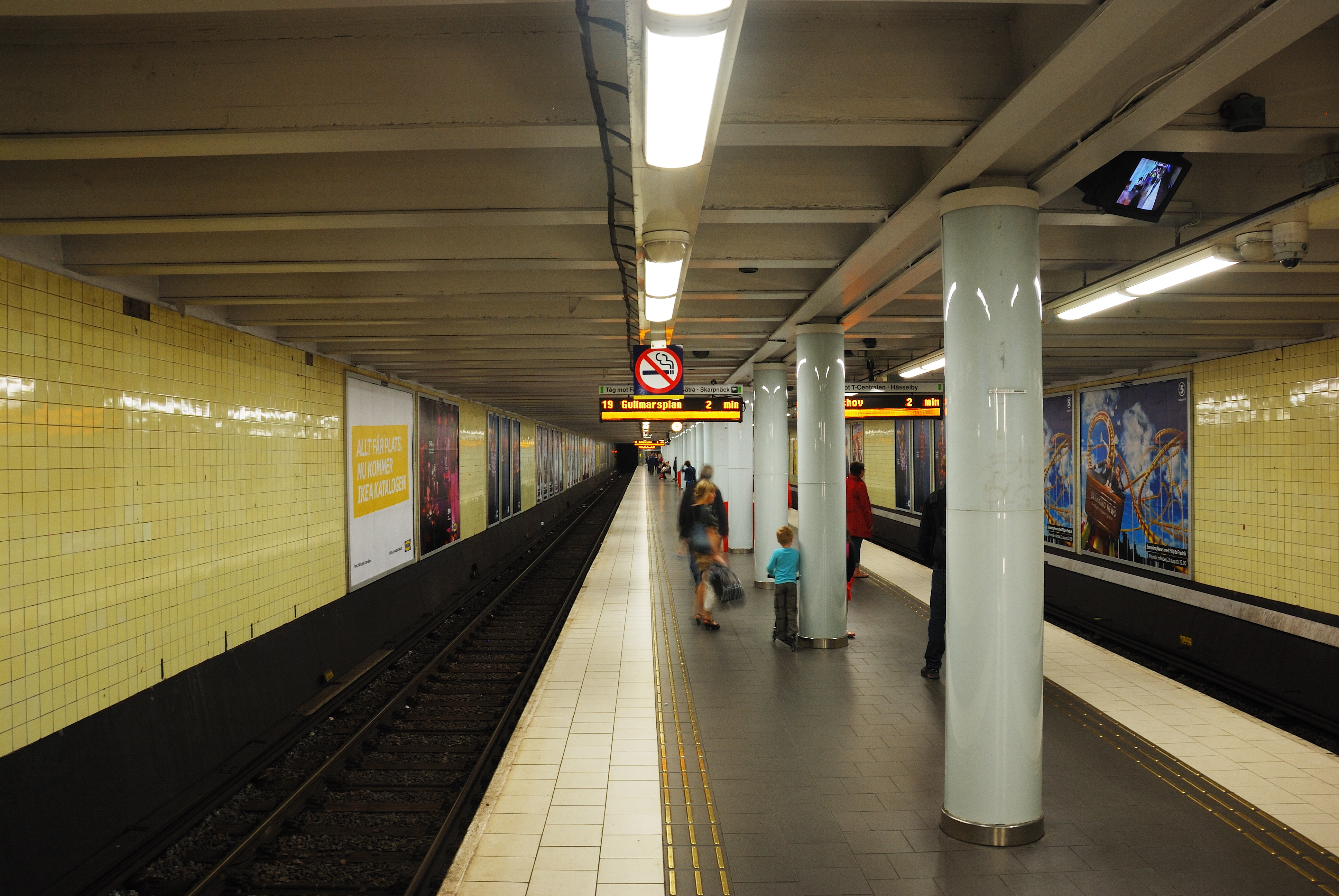 Skanstull Metro station.